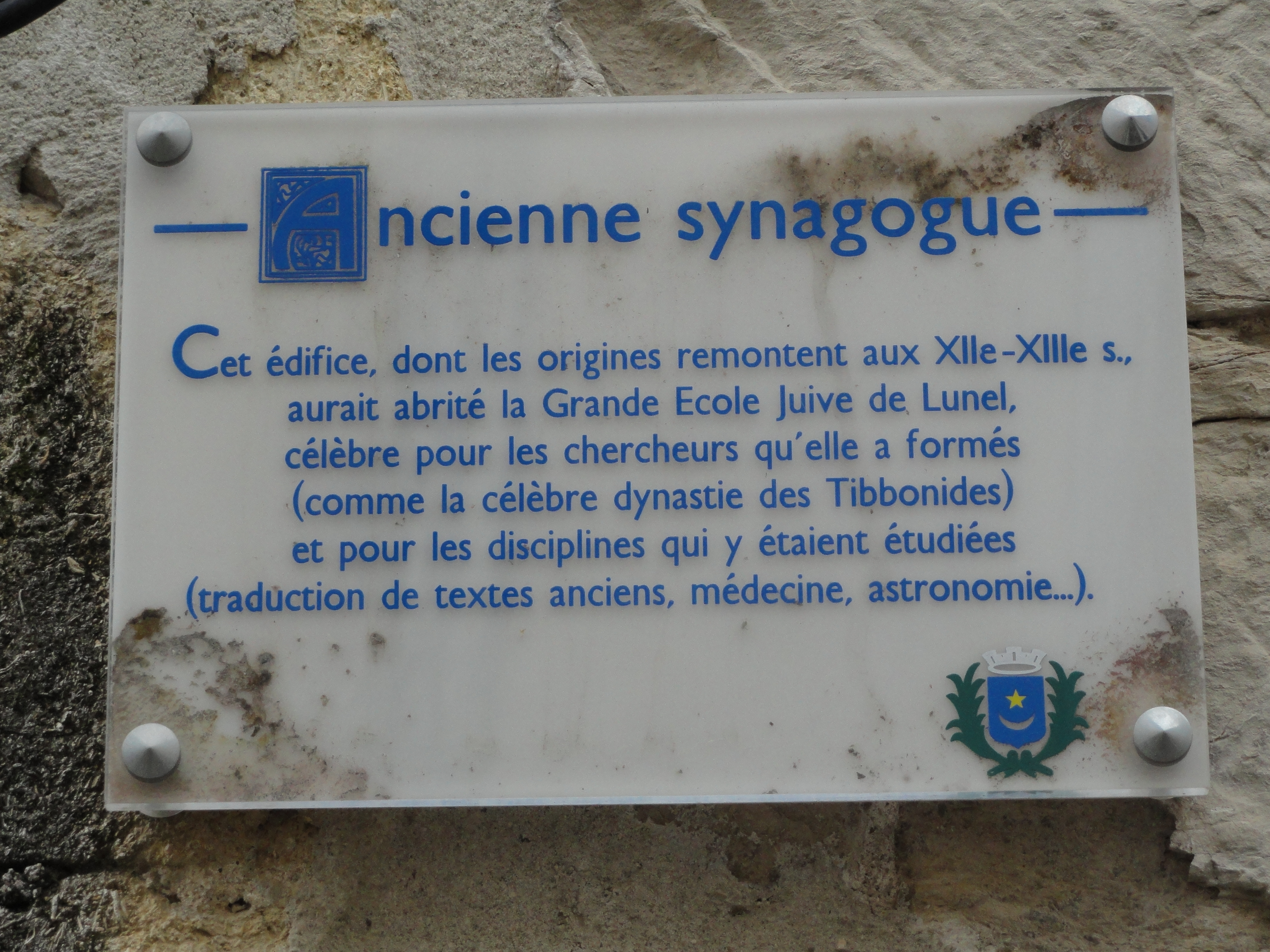 commemorative plate of the medieval synagogue of Lunel. It remains only a wall.